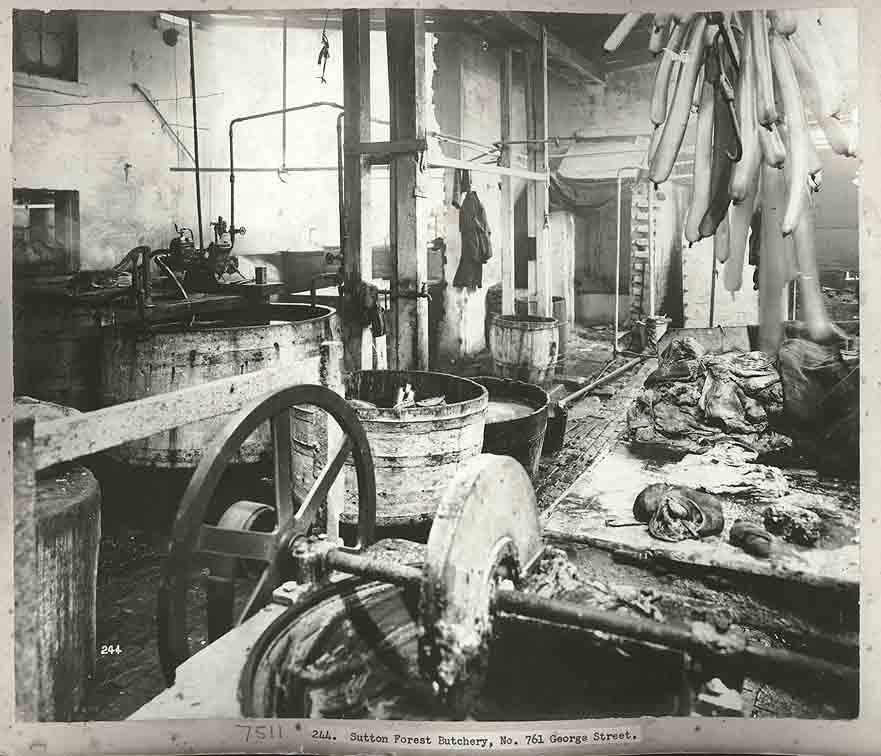 From a series of images showing the areas in Sydney affected by the outbreak of Bubonic Plague in 1900. Taken by Mr. John Degotardi, Jr., photographer from the Department of Public Works, the images depict the state of the houses and 'slum' buildings at the time of the outbreak and the cleansing and disinfecting operations which followed. Sutton Forest Butchery, No.761 George Street, Sydney Dated:c. 17/07/1900 Digital ID: 12487_a021_a021000007 Rights: We'd love to hear from you if you use our photos. Many other photos in our collection are available to view and browse on our website using Photo Investigator.